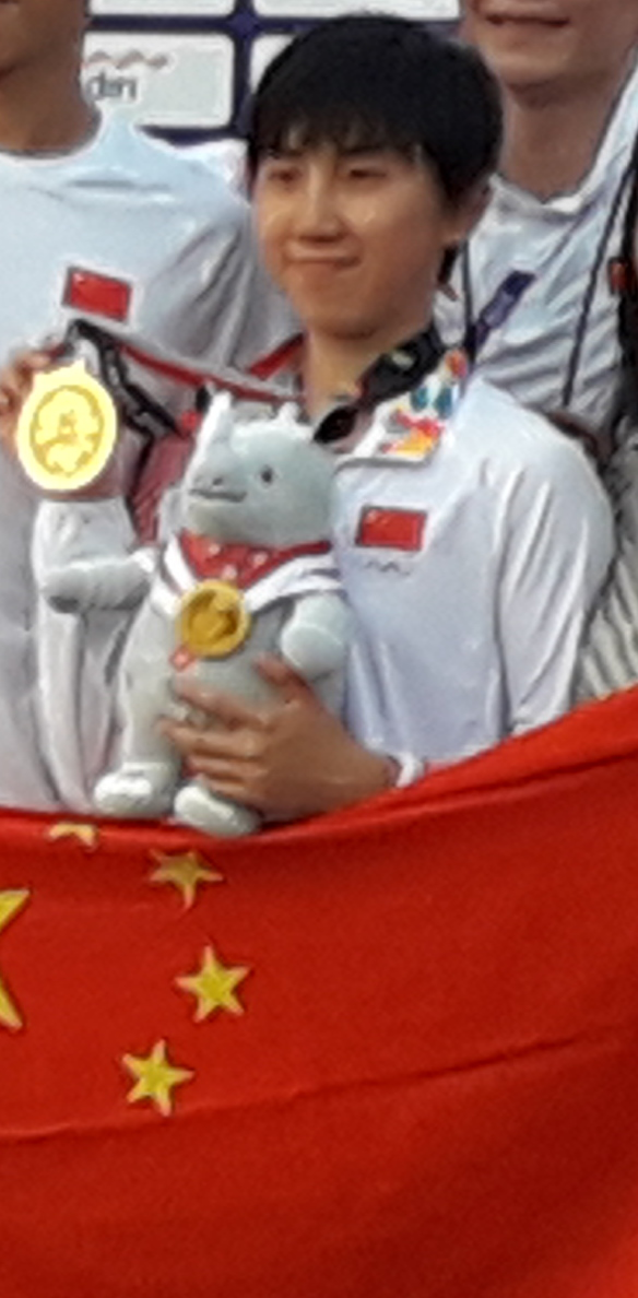 Gold medalist Zhang Mingyu, 16 y.o. accompanied by her officials and supporters. She win gold medal at the Womens Single Modern Pentathlon Asian Games 2018, held on August 31st, 2018 at Adria Pratama Mulya (APM) Equestrian Centre, Tigaraksa, Banten, Indonesia.